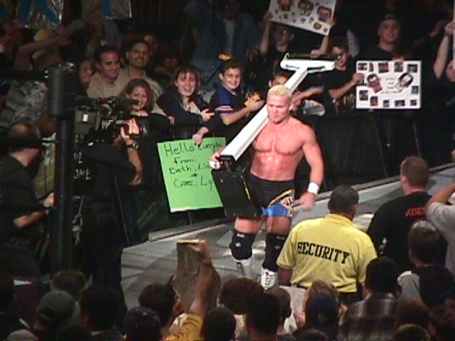 WWF (WWE) Smackdown Crash Holly worth his weight in ...